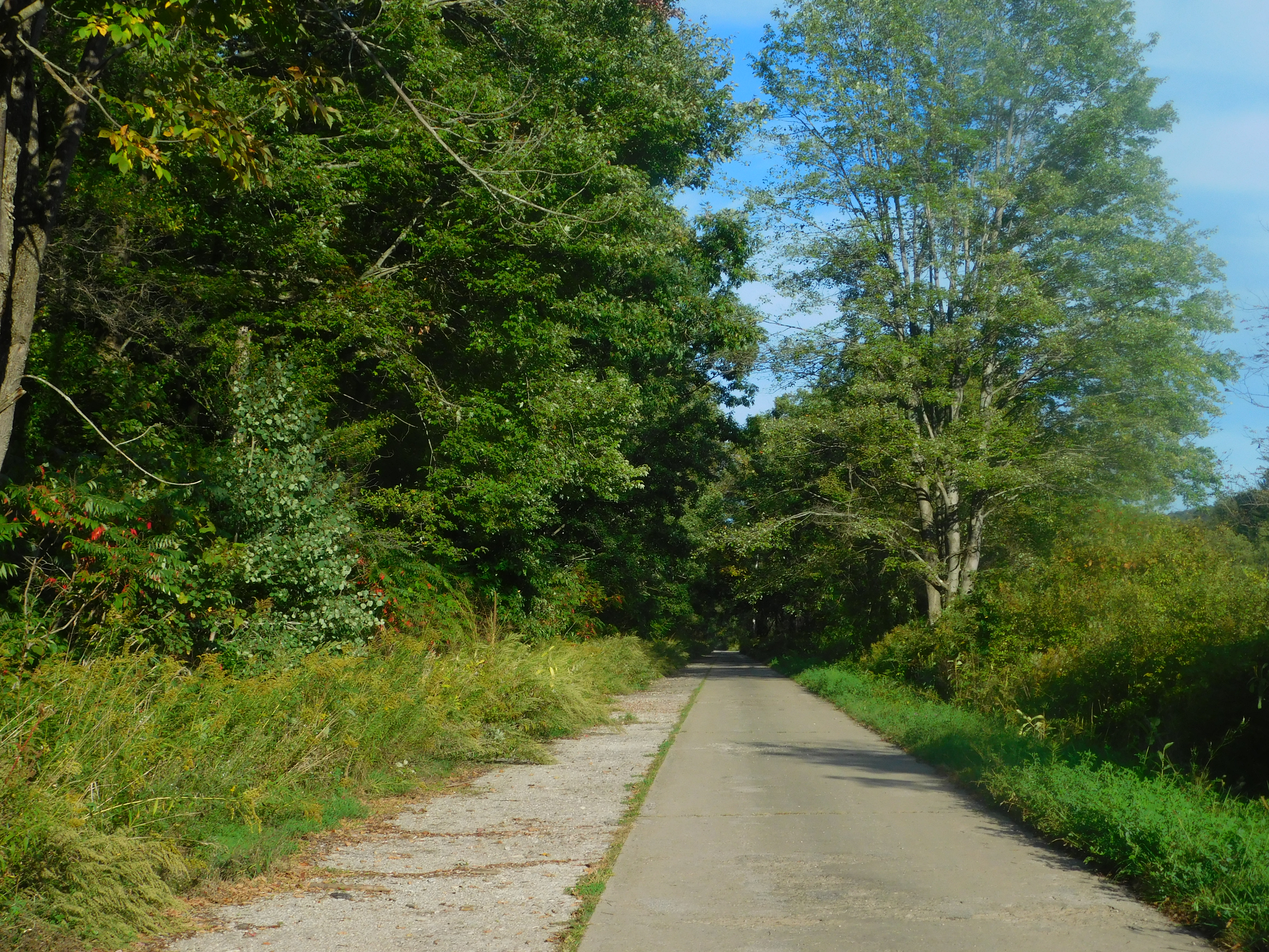 The abandoned alignment of NY 382 in Red House, New York.